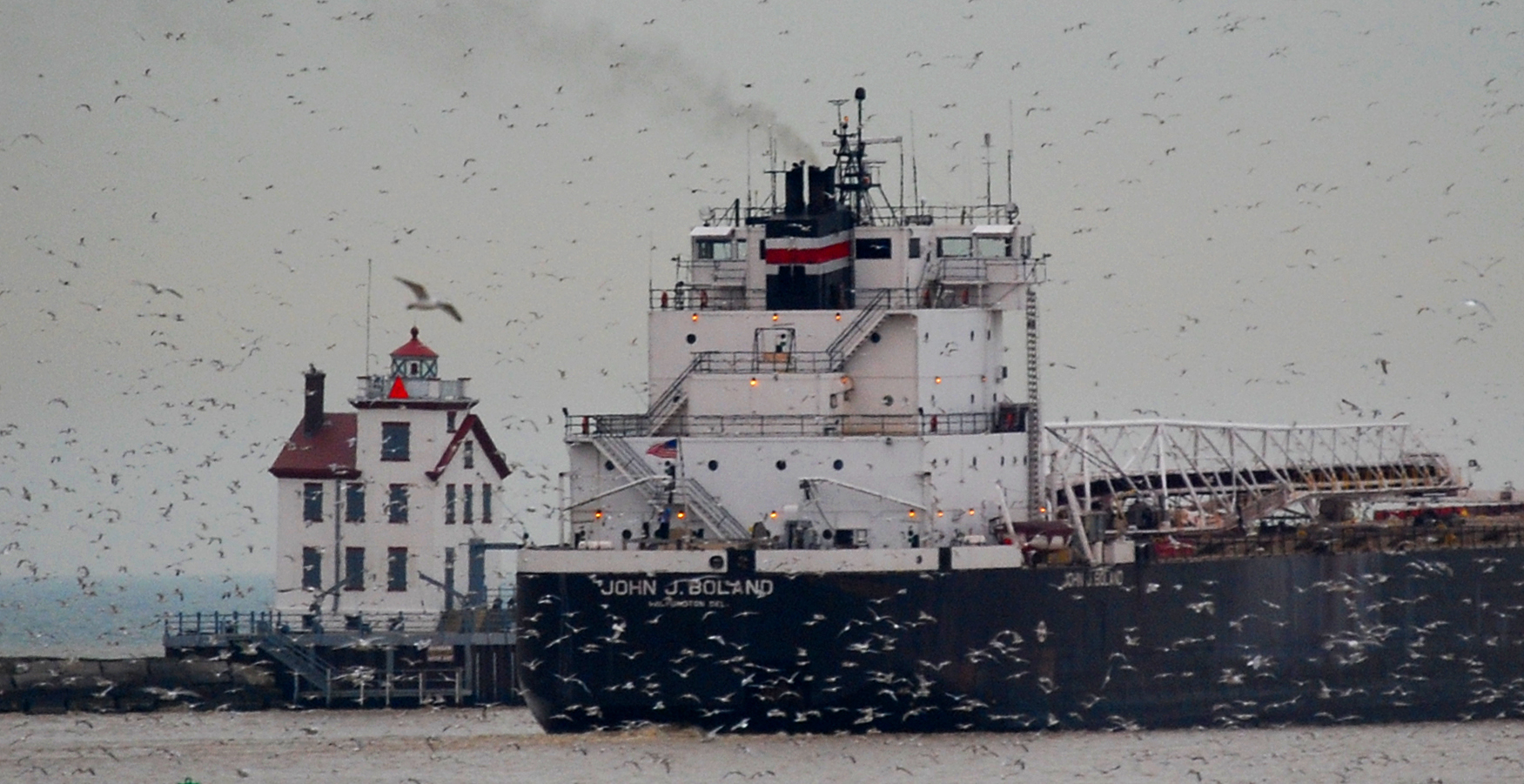 Lake freighter John J. Boland passes Lorain, Ohio lighthouse